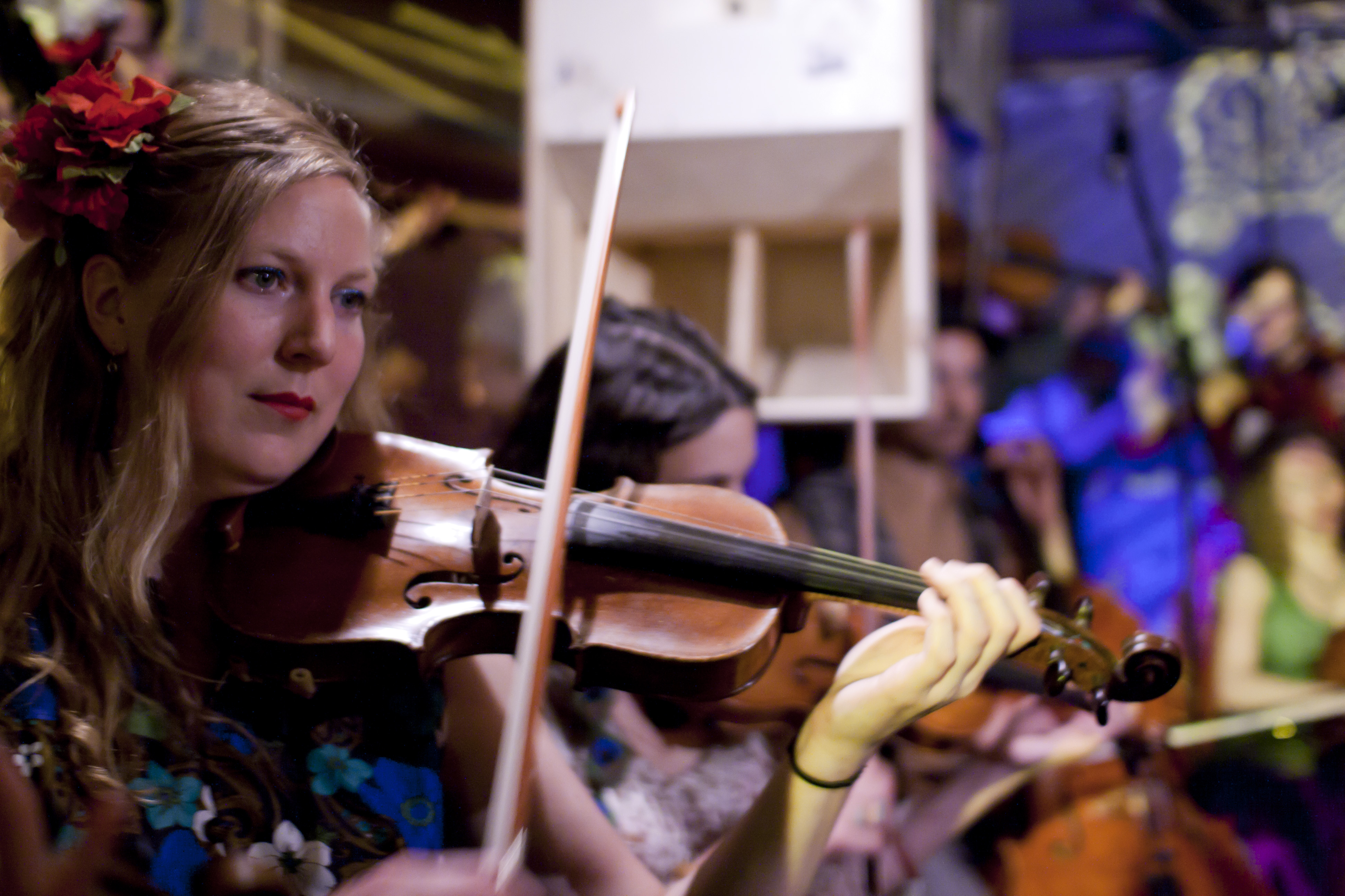 London Gypsy Orchestra